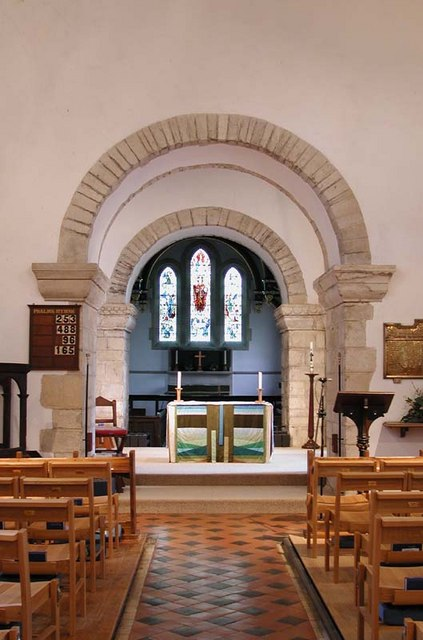 Holy Trinity, Weston, Herts - East end